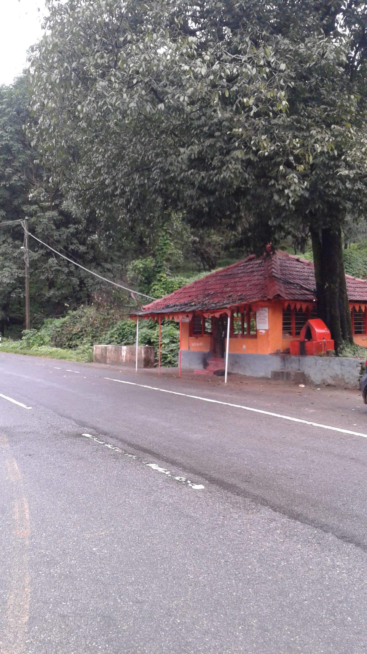 Kodagu district, Karnataka state, India.